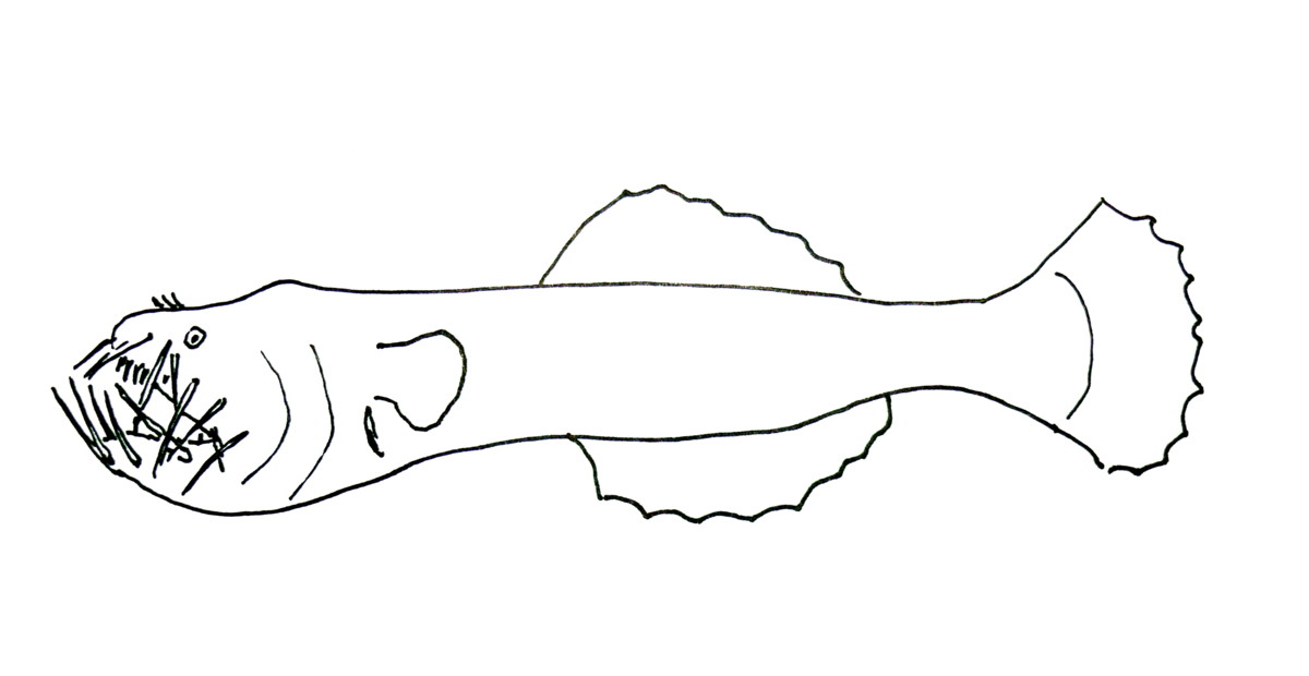 Neoceratias spinifer